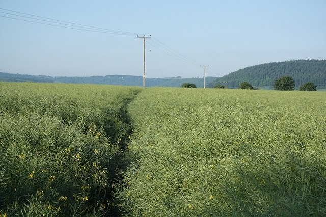 Footpath through oilseed rape. Footpath near Bromsash crossing the site of 3rd century Roman Station (Ariconium).